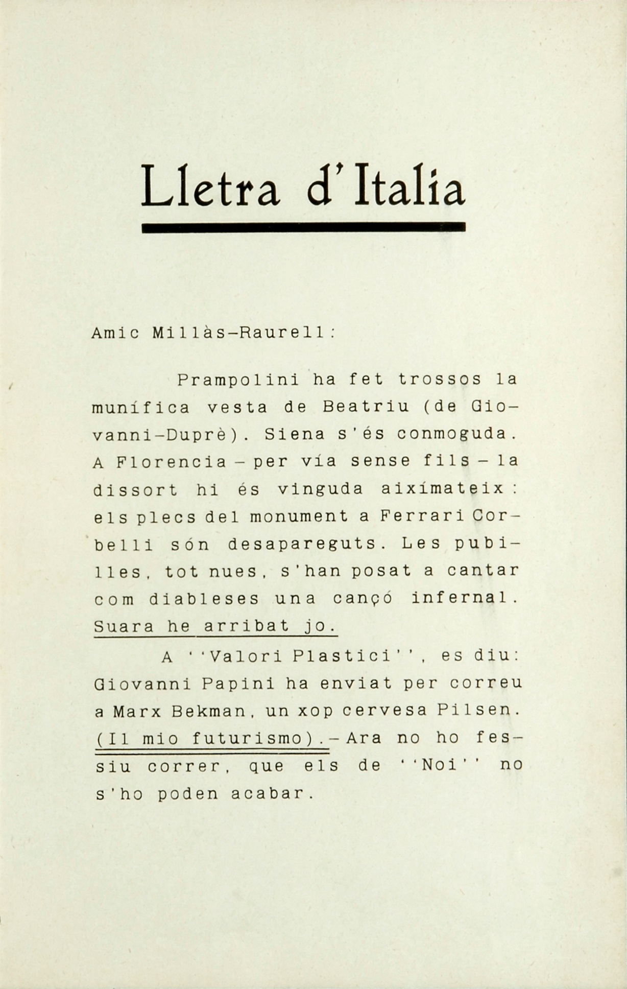 First page of the text Lletra d'Itàlia from the Catalan book Poemes en ondes hertzianes.